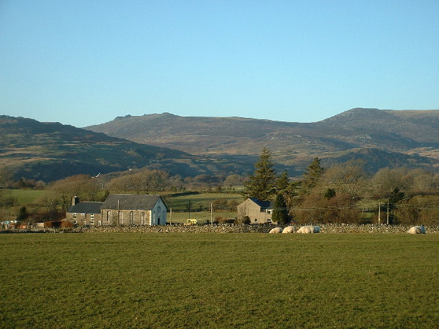 Chapel near Golan. The hill above the chapel is Mynydd Graig Goch, with Craig Cwm Silyn to the right.